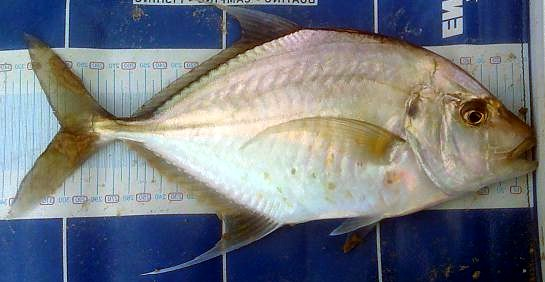 Longnose trevallly caught in Weipa, Qld